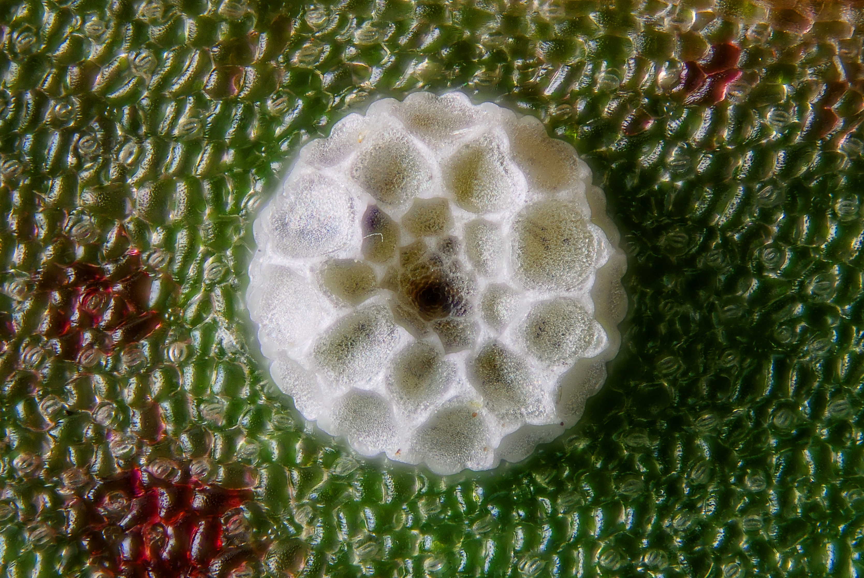 Egg of the butterfly Lycaena phlaeas on a leaf of Rumex acetosella. Technical settings : focus stack of 34 images microscope objective (Nikon achromatic 10x 160/0.25) on bellow